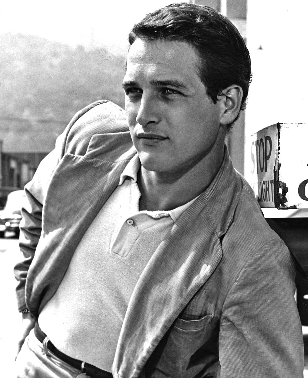 Original studio publicity photo of Paul Newman. See also: film still article. The caption on the back reads: "Paul Newman, soon to be seen in THE SILVER CHALICE, a Victor Saville production for Warner Bros."